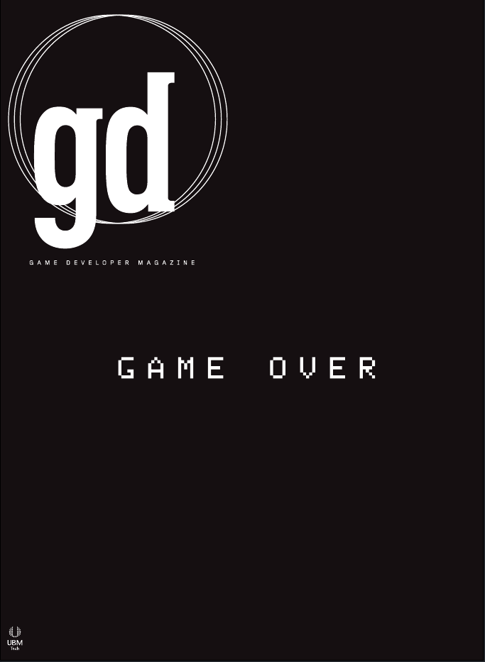 Cover of last issue of Game Developer.